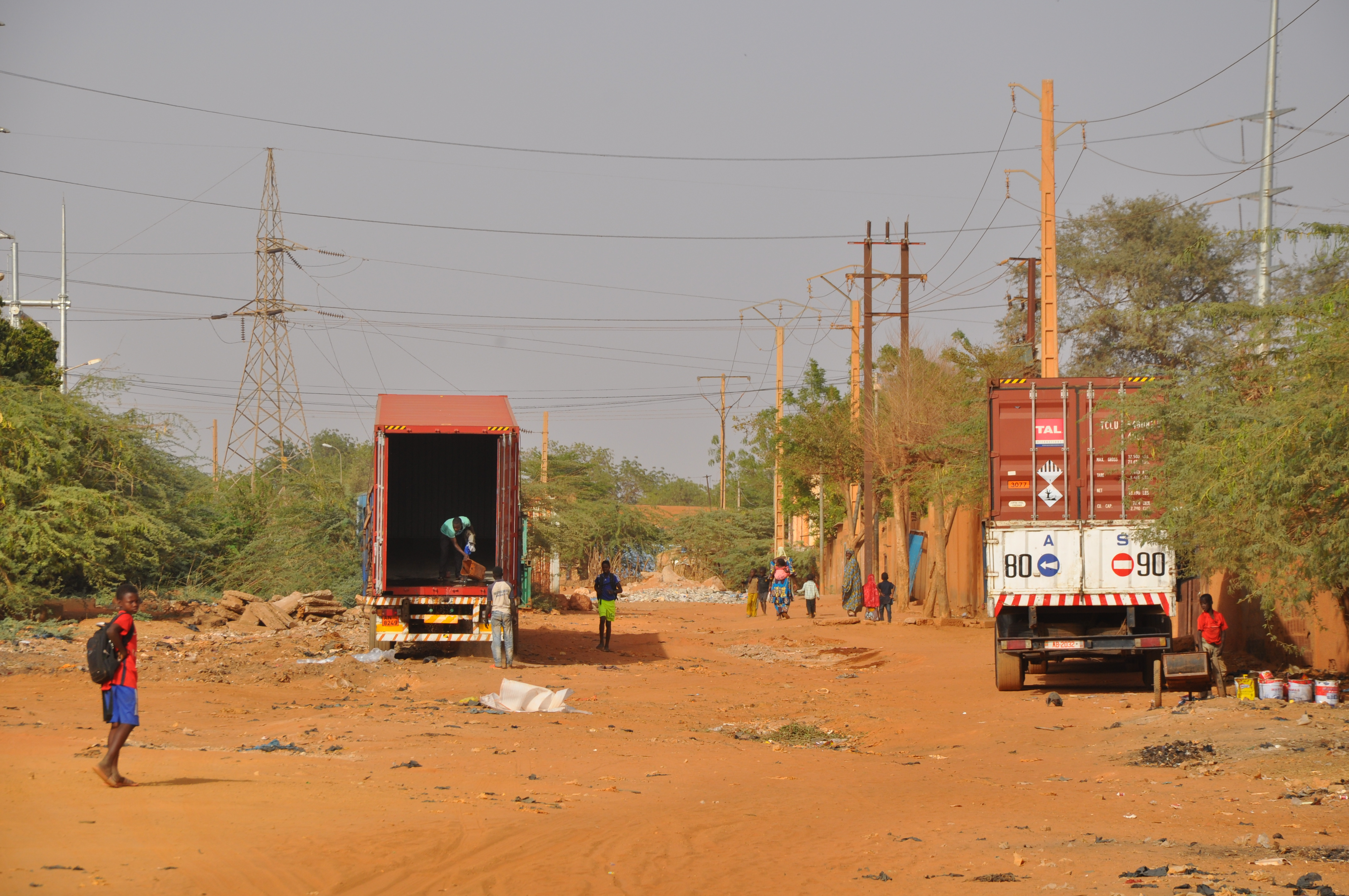 Avenue d'Akokan (Akokan Avenue, Rue ZI-7) in the industrial zone in Niamey, Niger.